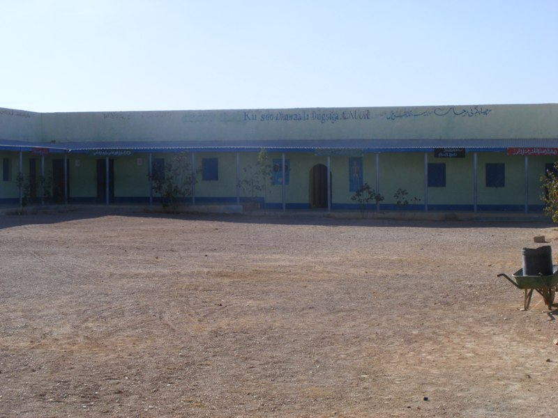 One of the Secondary Schools in Badhan, Sanaag, Somalia